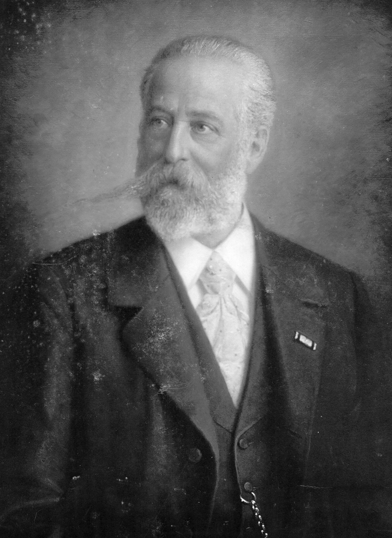 Johann Maria Carl Farina 1840-1896